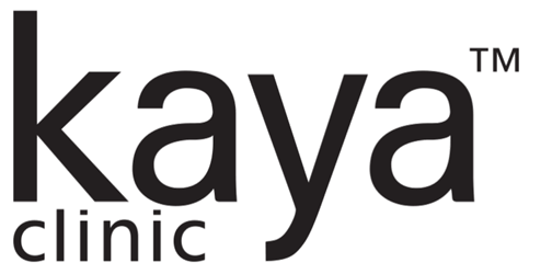 This is the new logo of Kaya Clinic.